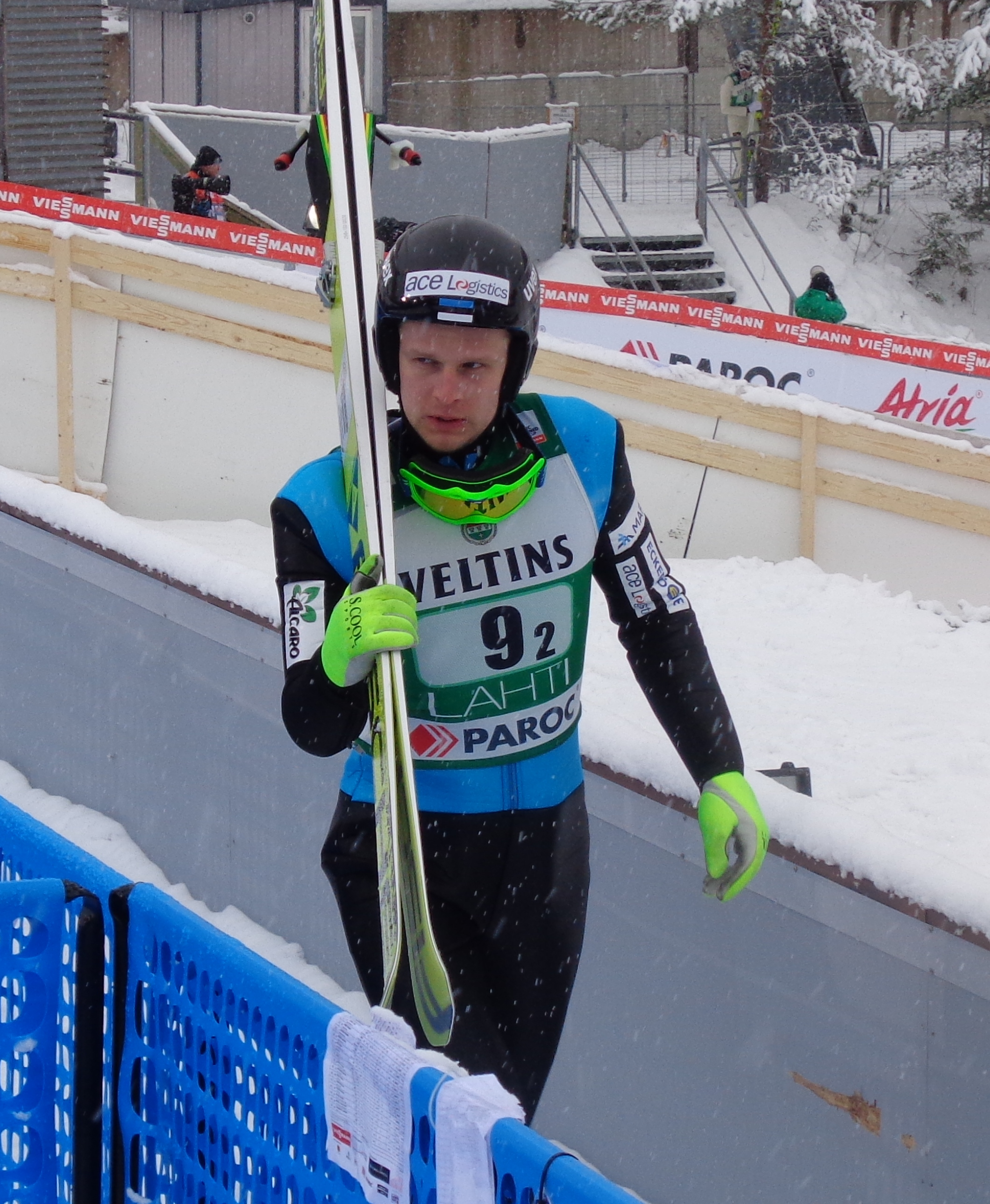 Estonian nordic combined skier Karl-August Tiirmaa during the Lahti Ski Games 2016.